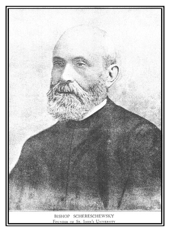 Samuel Isaac Joseph Schereschewsky